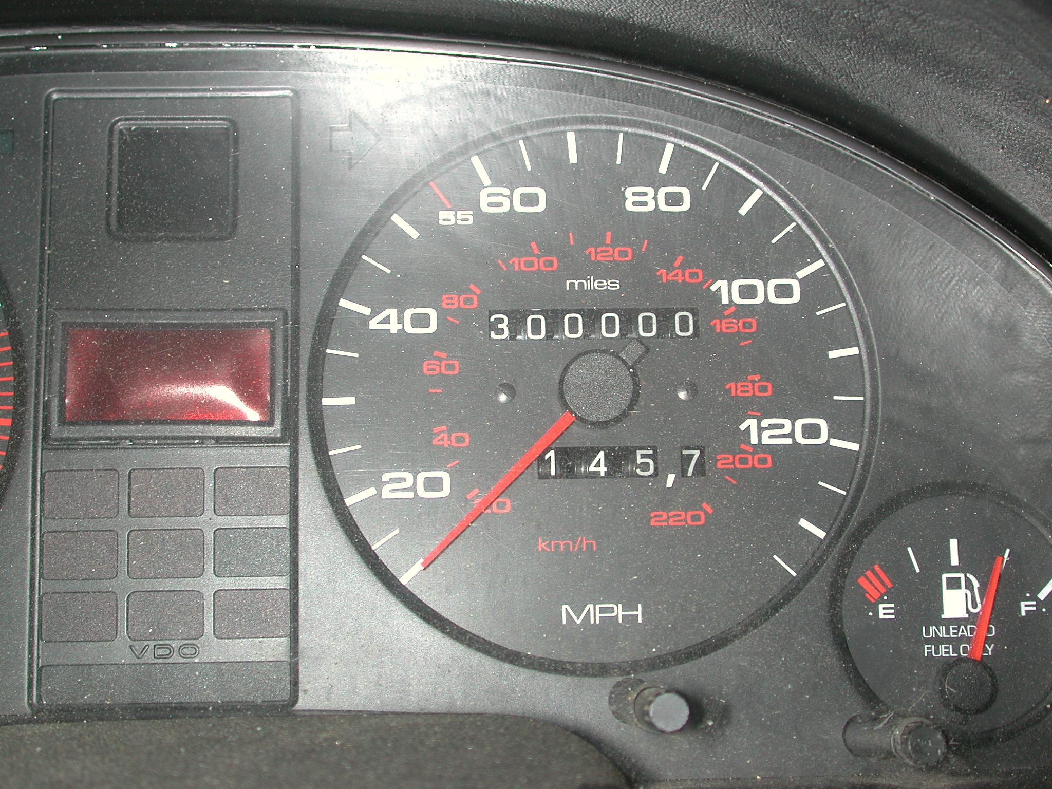 A VDO odometer indicating 300,000 miles in a 1988 Audi 90 Quattro. Of course to get there, it had to be repaired.